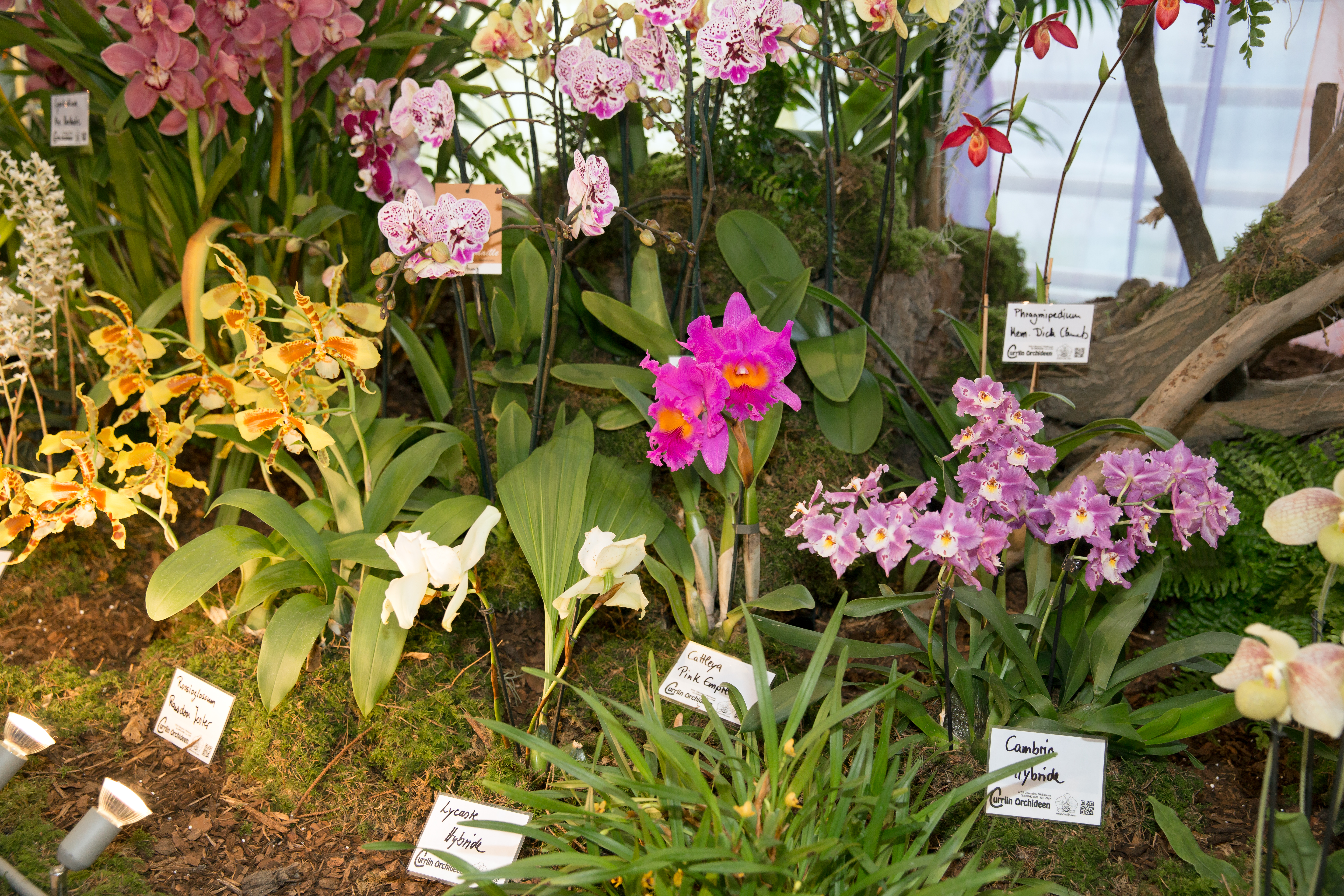 International Exhibition of Orchids and Tillandsia at Blumengärten Hirschstetten in Vienna, Austria.